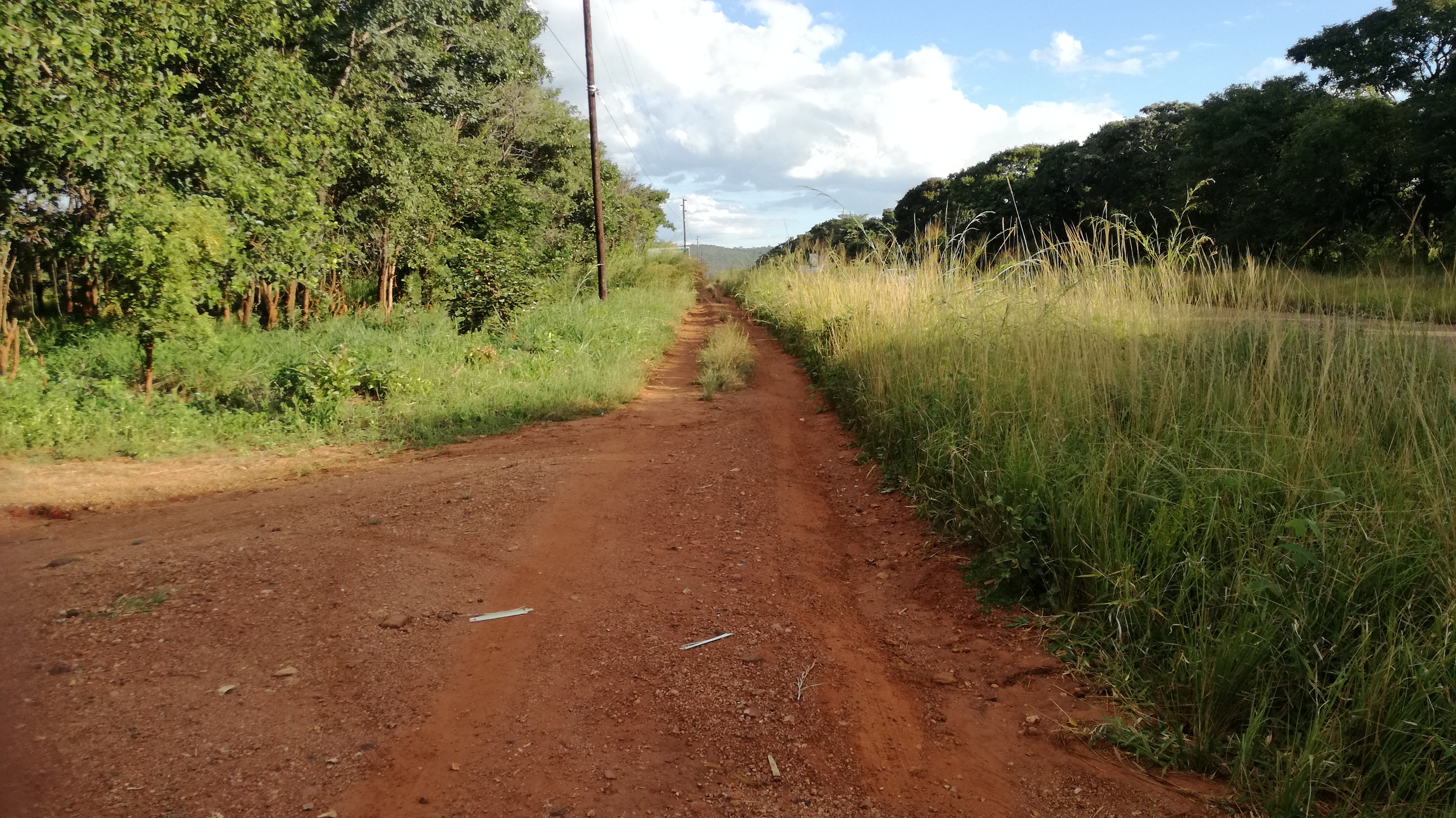 A service road near the entrance to a farm/homestead property in Chipata, Zambia. This is an image with the theme "Africa on the Move or Transport" from: Zambia